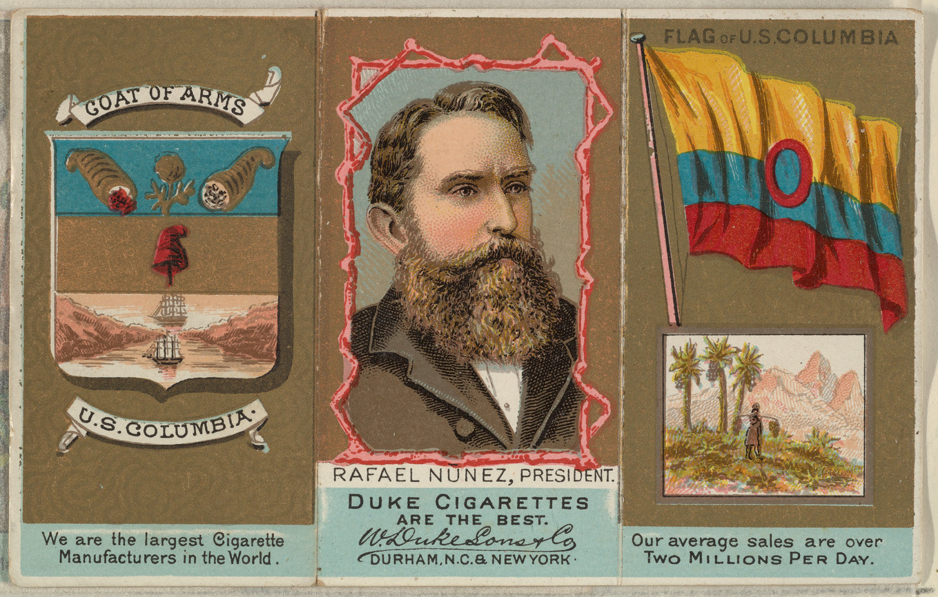 Print; Prints